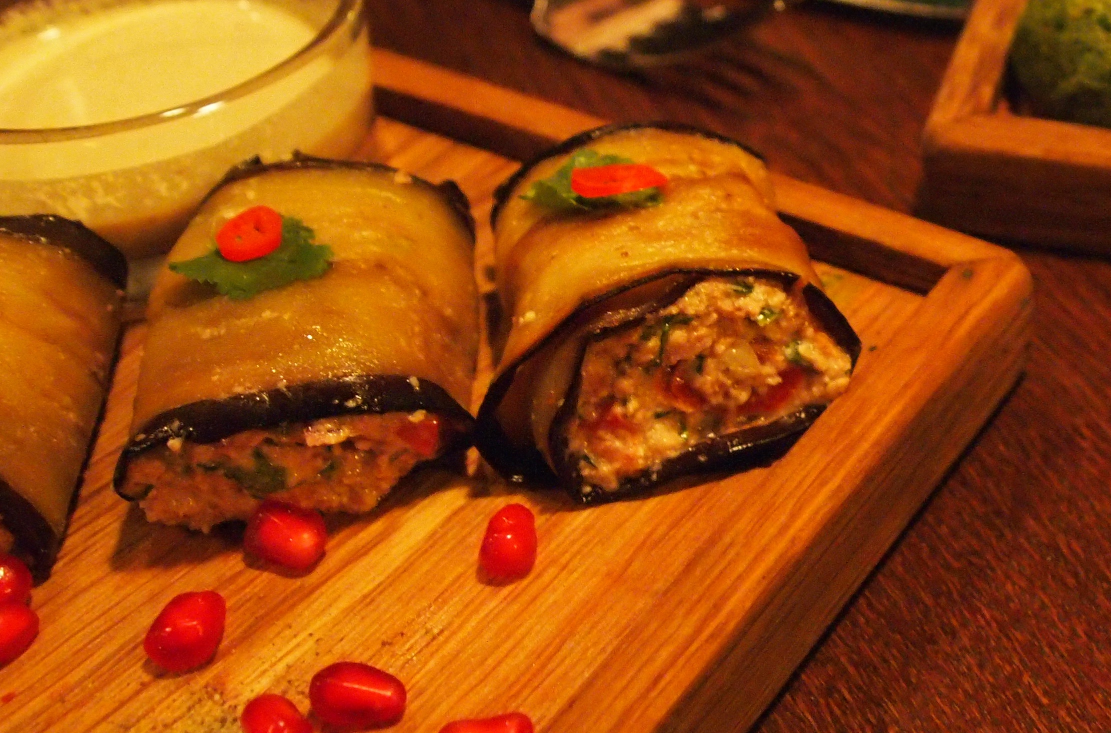 Georgian cuisine: Pkhali, Badrijani and Ajika on table